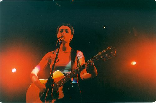 Italian songwriter Carmen Consoli at Milan